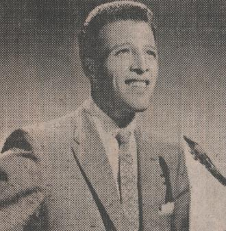 Jimmy Cavallo as pictured in a 1949 newspaper article